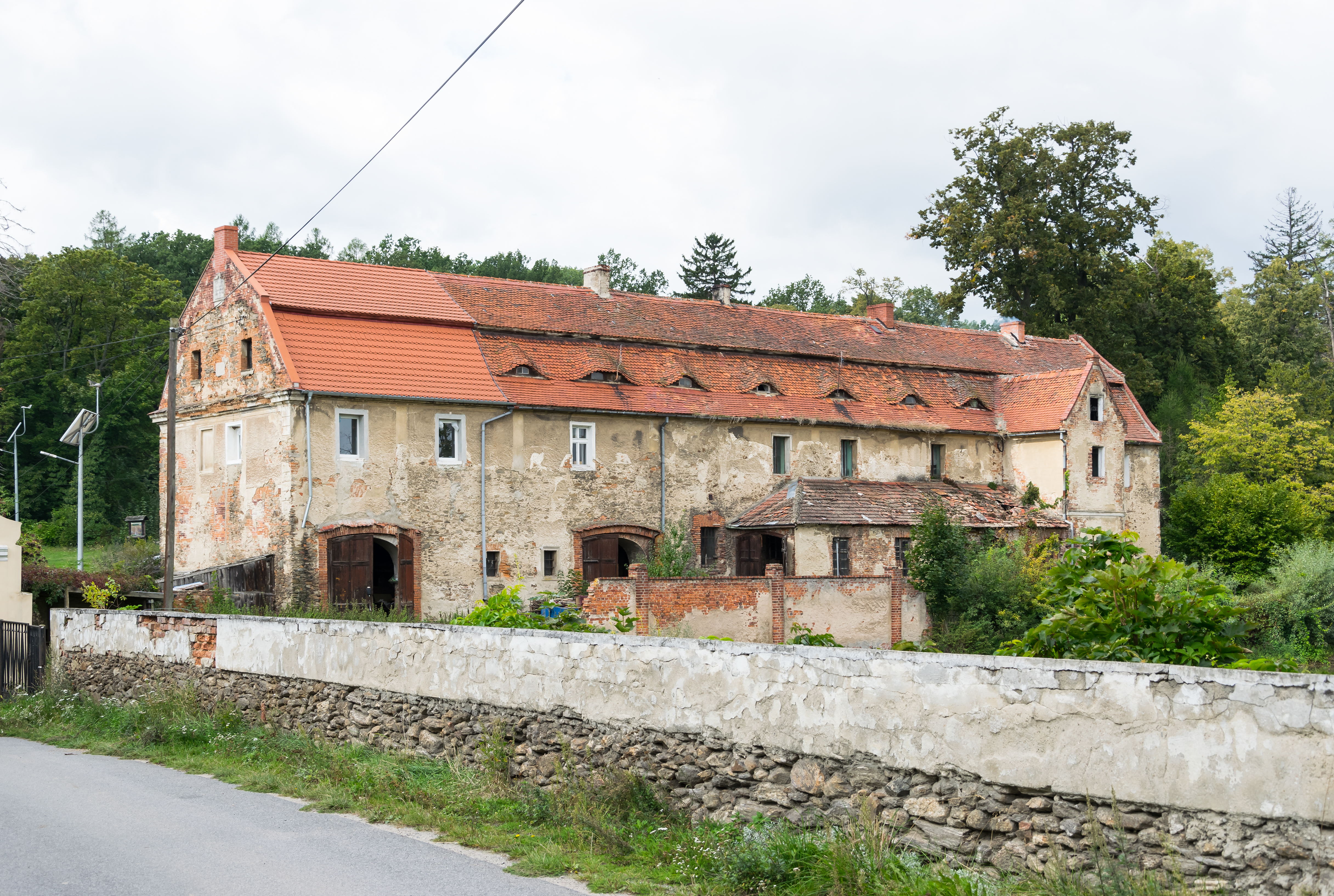 Owiesno castle outbuilding